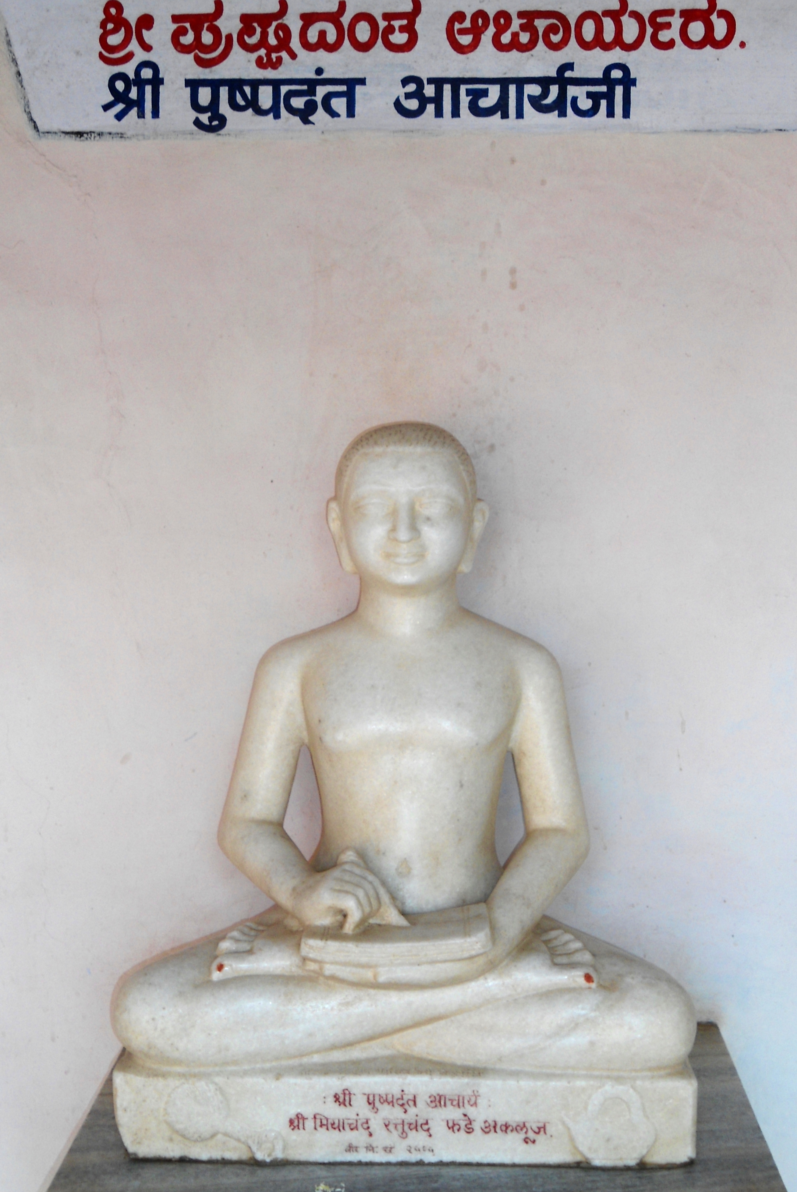 Image of Acharya Pushpadant